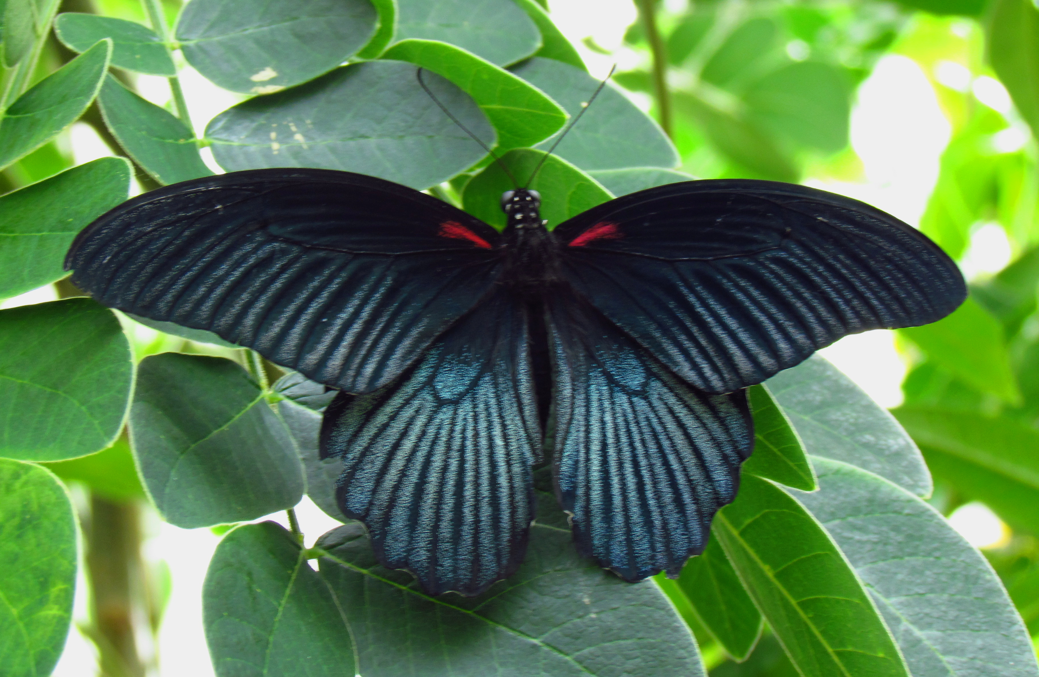 Great Mormon (Papilio memnon agenor), male, dorsal view